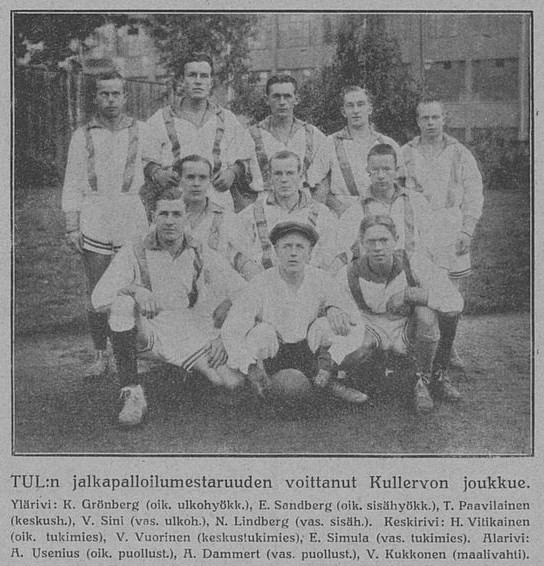 Kullervo Helsinki, 1920 football champions of the Finnish Workers' Sports Federation.